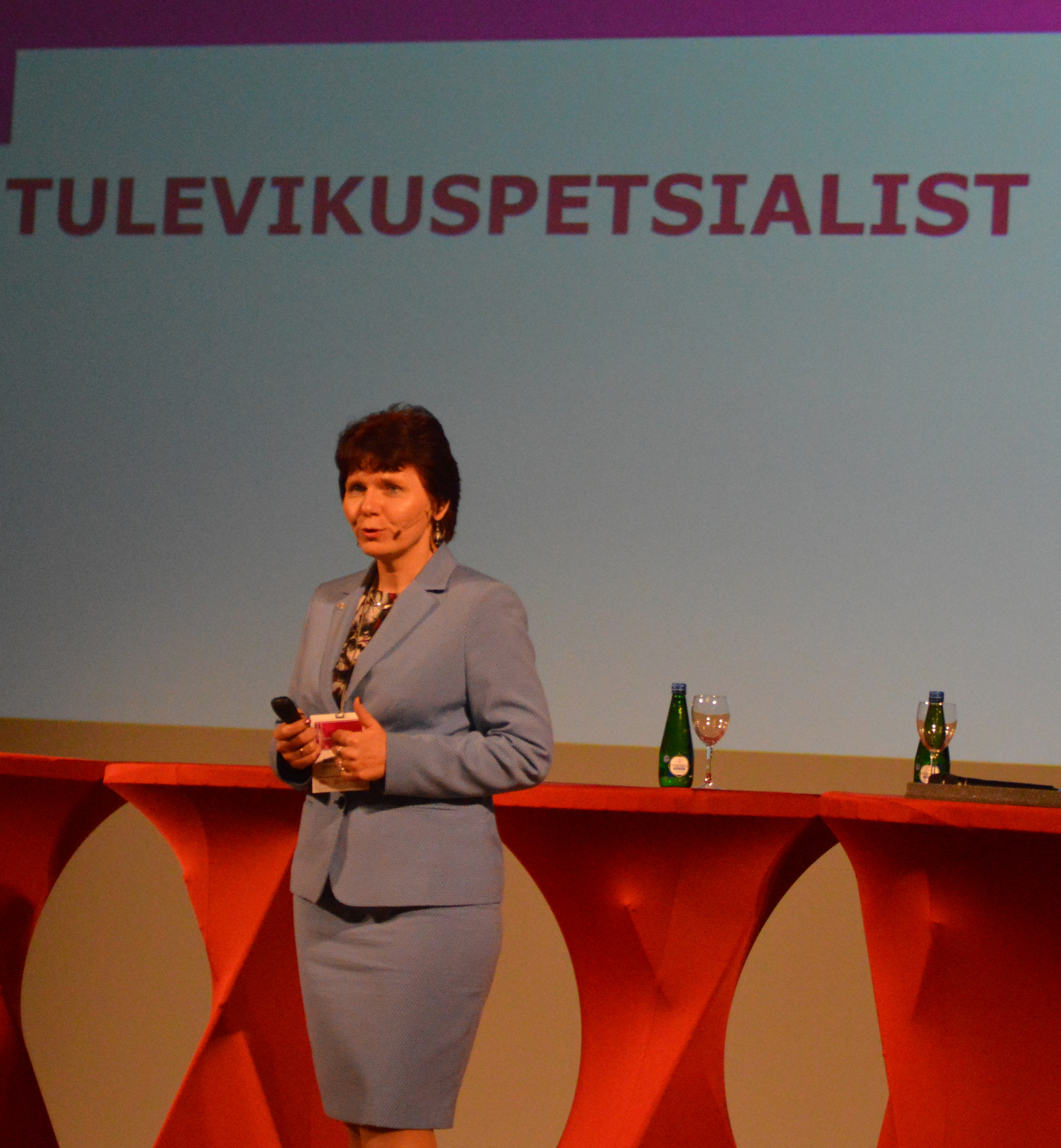 Oil Shale conference